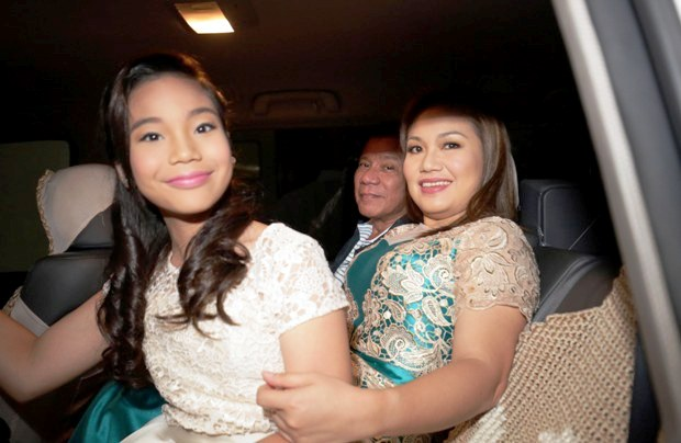 President Rodrigo Duterte with his common-law wife Cielito Avanceña and their daughter Veronica.